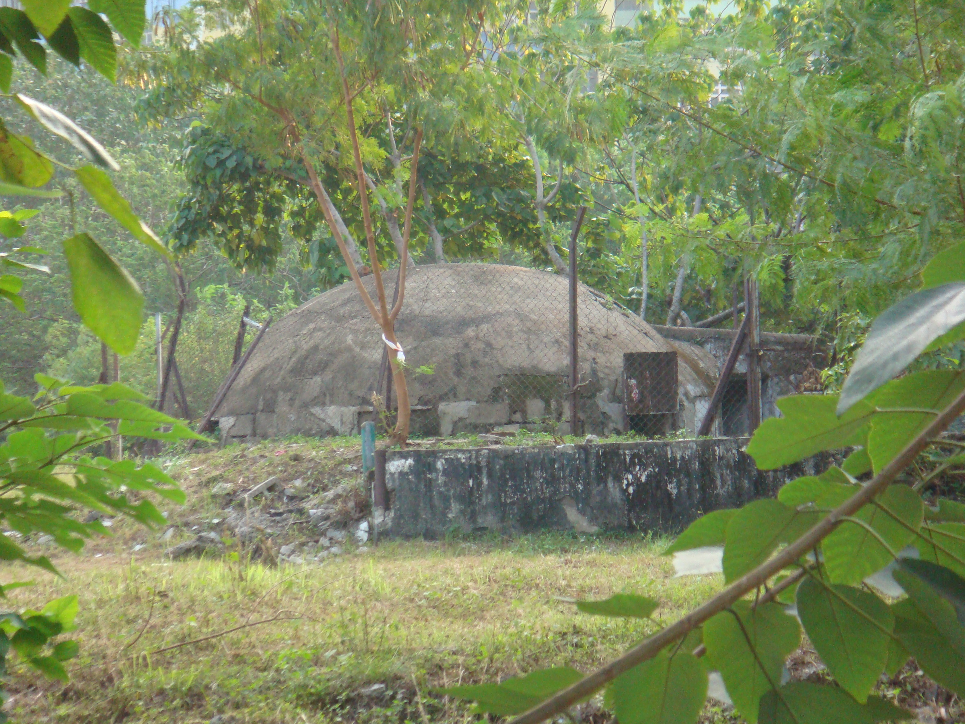 Old Pillbox at Tai Hom Village, Hong Kong 中文（香港）: 九龍鑽石山機槍堡